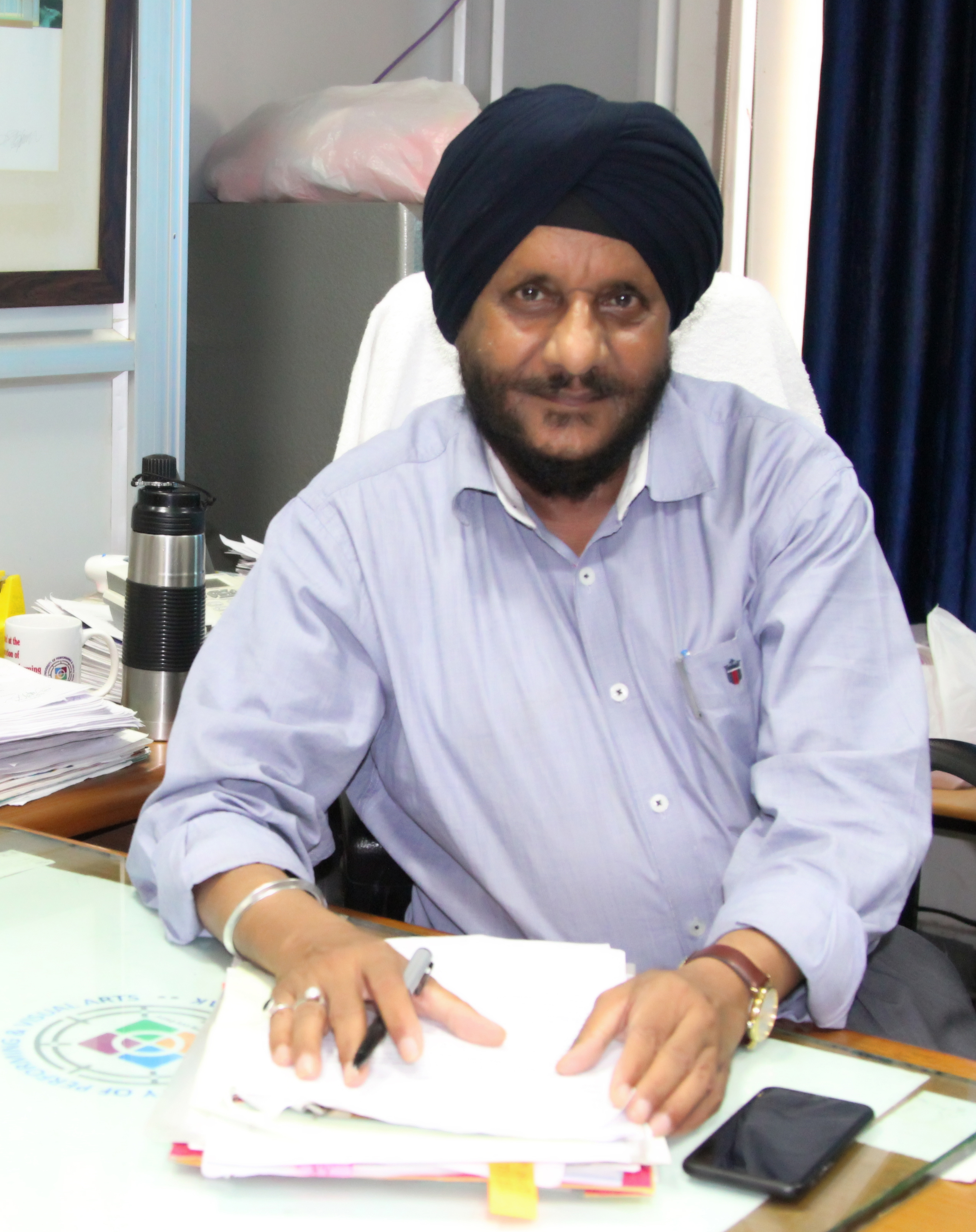 D S Kapoor at office State University of Performing And Visual Arts, Rohtak 2016